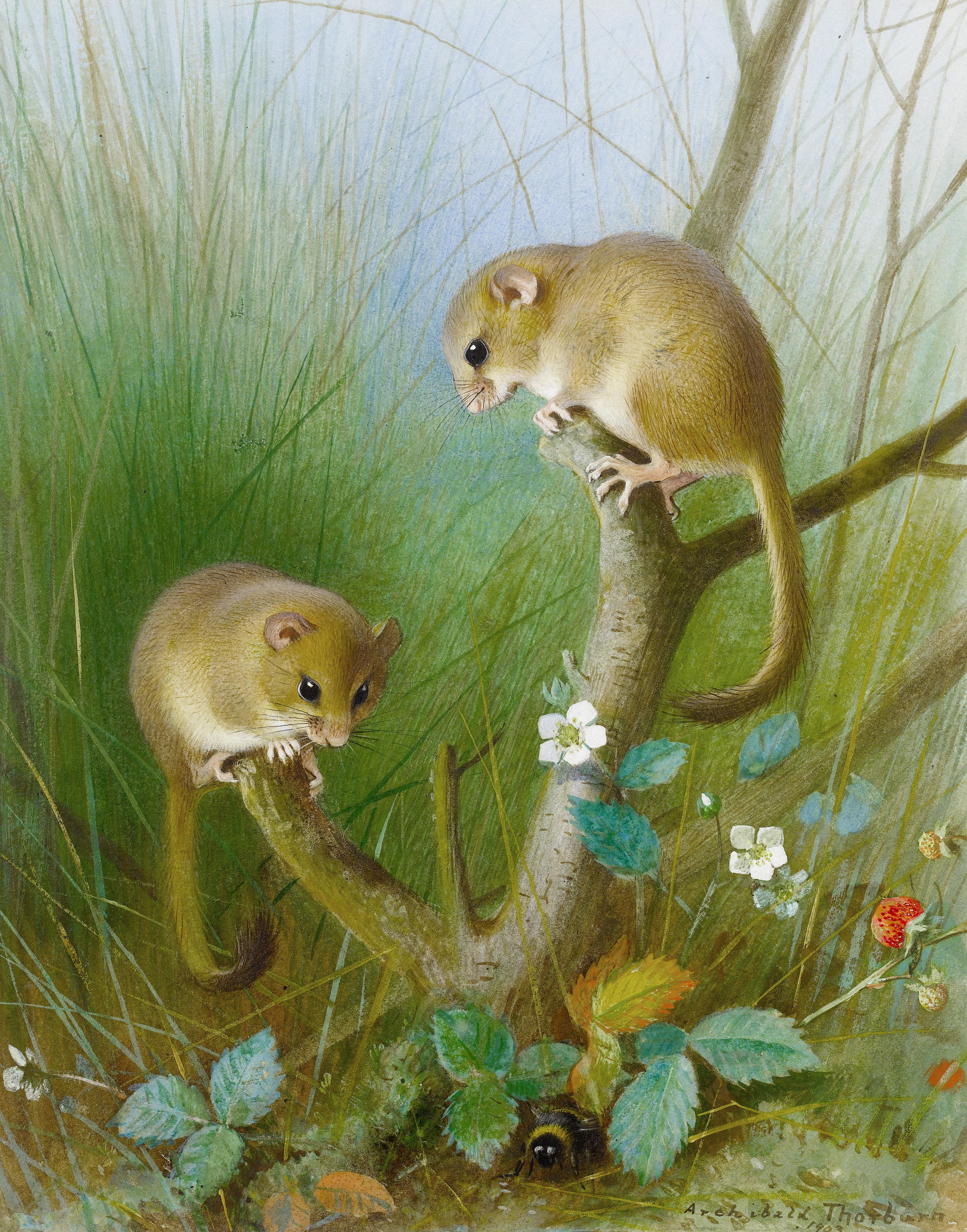 Dormice (see Muscardinus avellanarius). Signed and dated Archibald Thorburn/1903. Watercolour and bodycolour, 25 x 19.5 cm